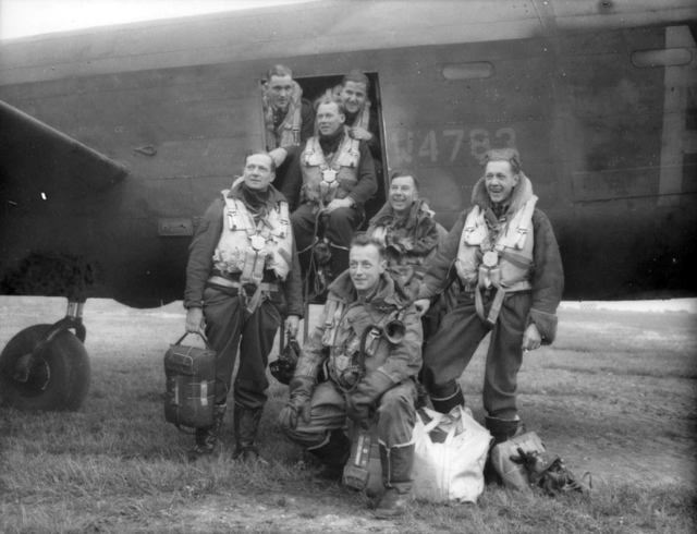 AWM caption : "Members of the crew of "G" for George, the veteran Lancaster aircraft of 460 Squadron RAAF in the UK, in front of their aircraft. . This aircraft has completed ninety operations and has been earmarked for the Australian War Museum after the war".